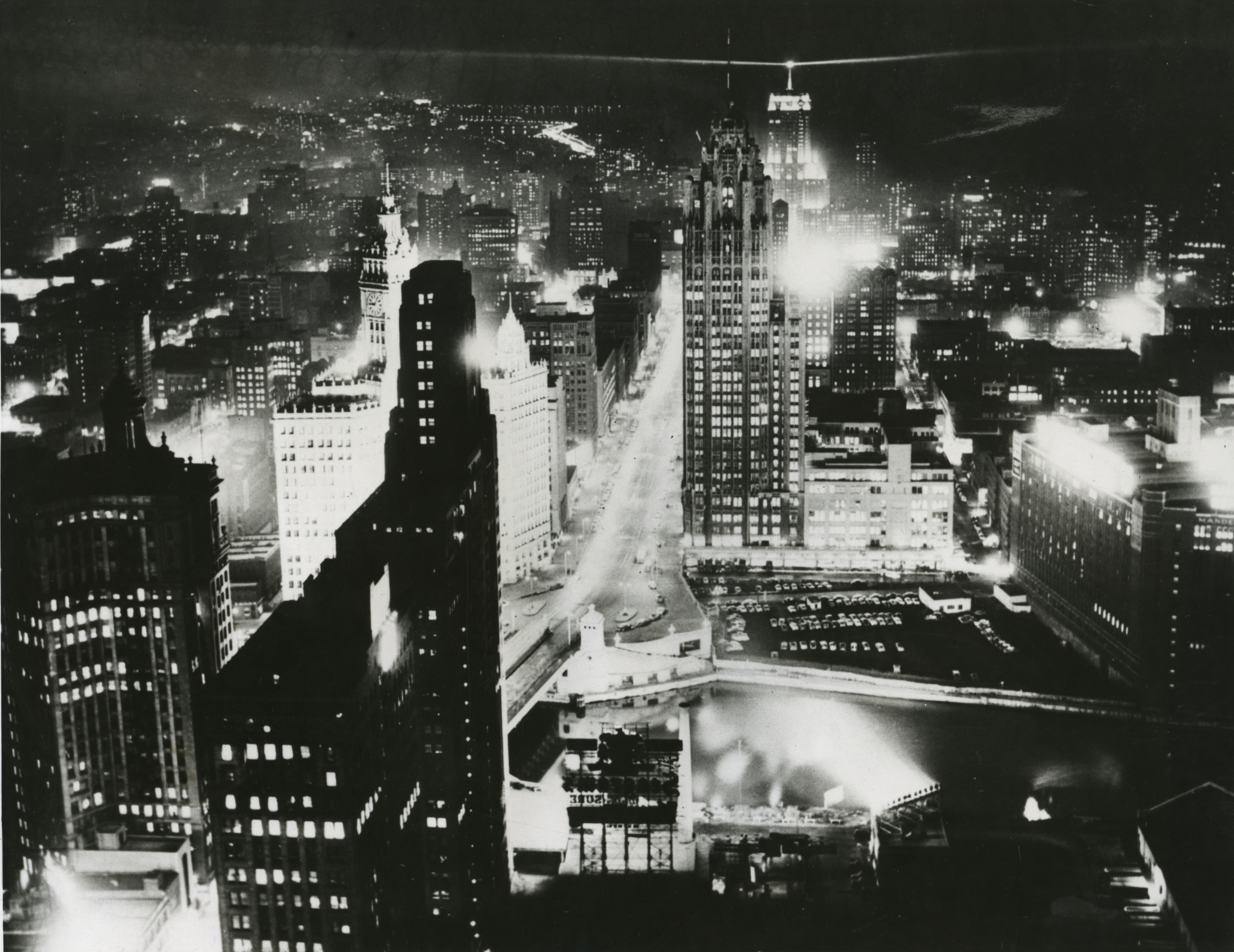 Downtown Chicago August 11, 1956. The city would host the opening day of the 1956 DNC only two days later.